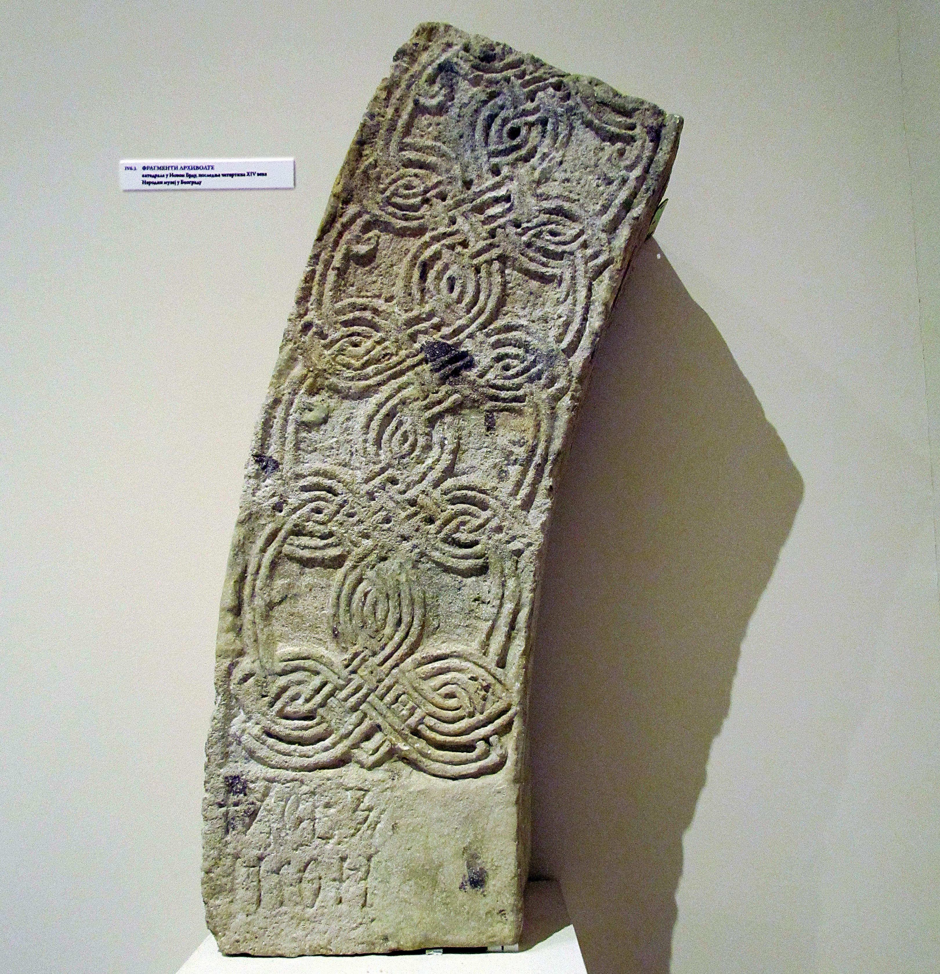 Archivolt piece from Novo Brdo Serbian medieval orthodox cathedral